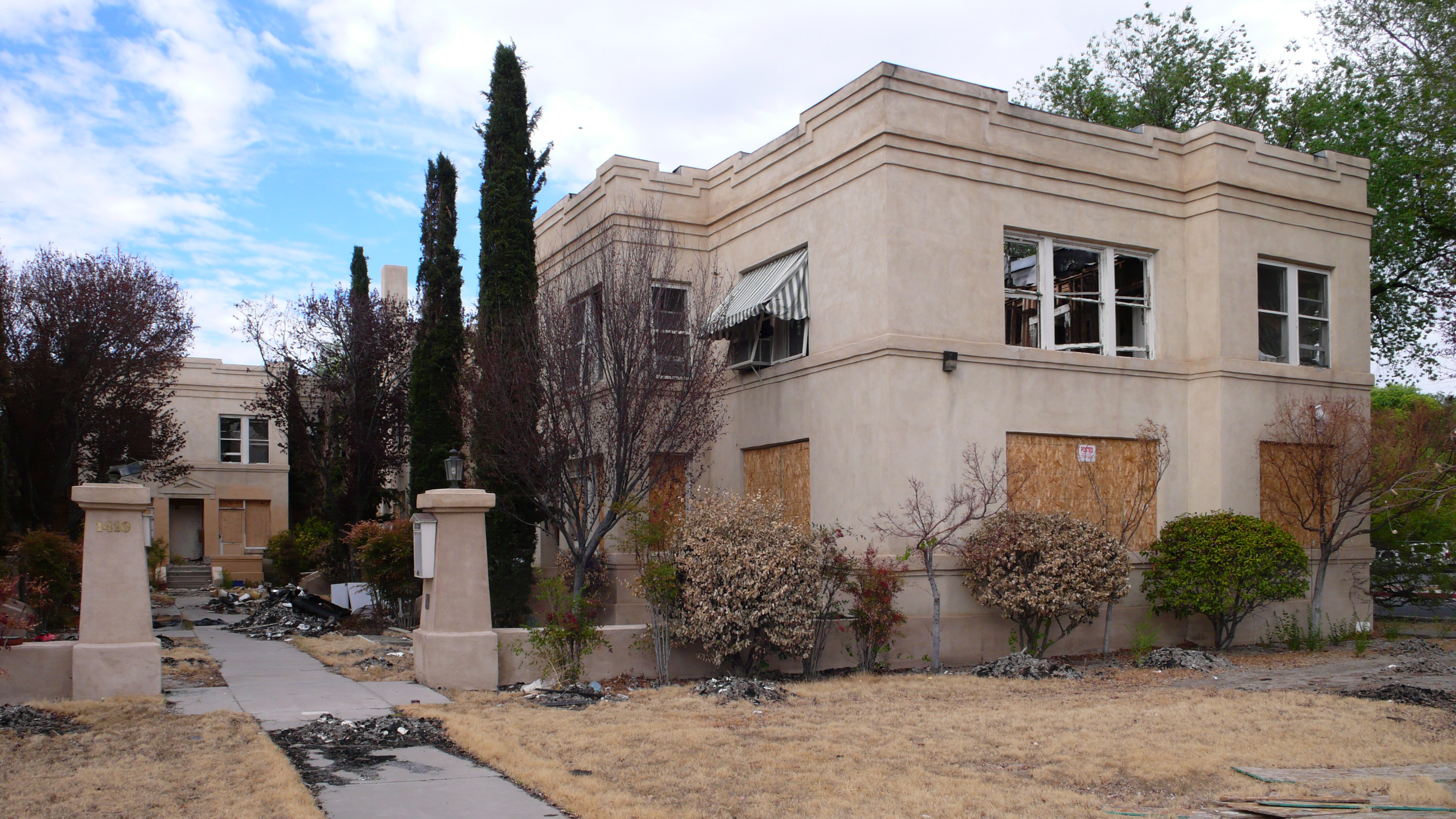 The Castle Apartments in Albuquerque, New Mexico, USA, prior to being demolished after a fire